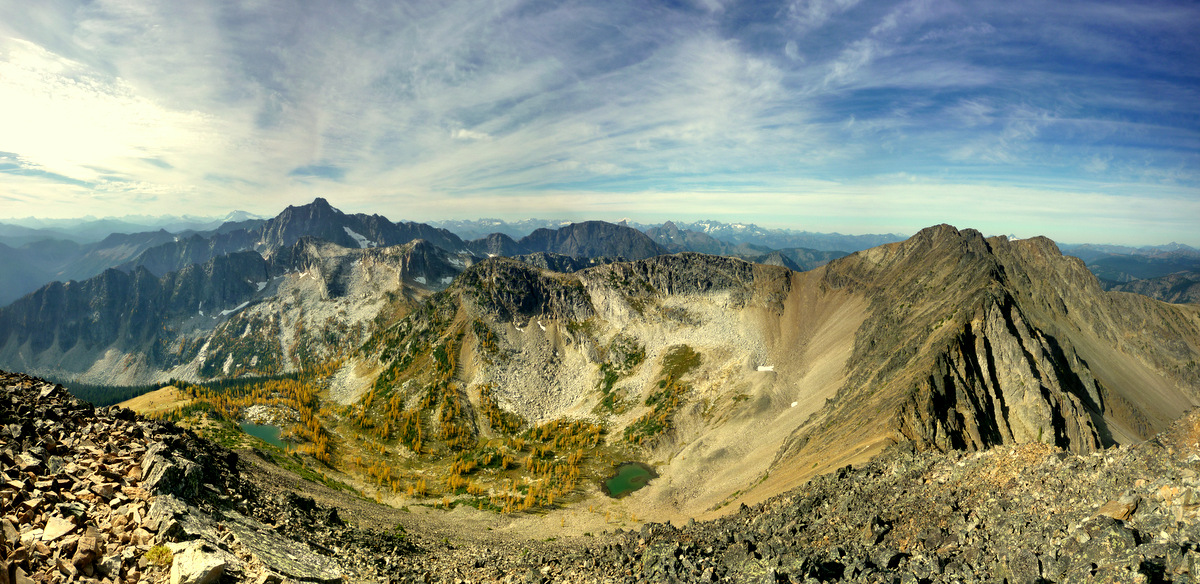 View from atop Frosty Mountain in E.C. Manning Provincial Park